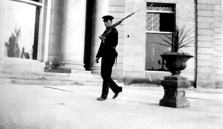 Soldier from the 19th Lincoln Regiment on guard at the Toronto Power Plant Building, Niagara Falls, Ontario, Canada.